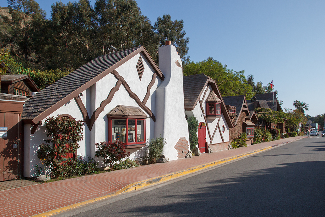 East End, Sawdust Art Festival Facade